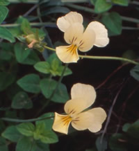 According to IUCN/SSC specialists this is one of the most endangered species of island floras in the Mediterranean area.